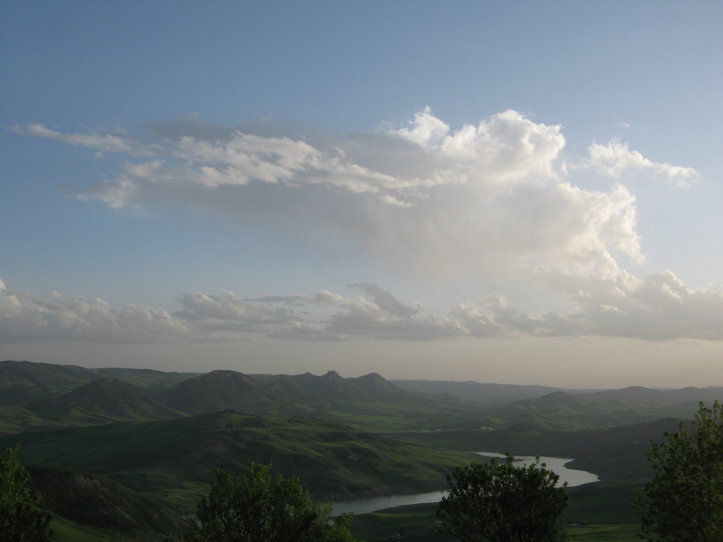 The Medjerda River, Souk Ahras, Algeria